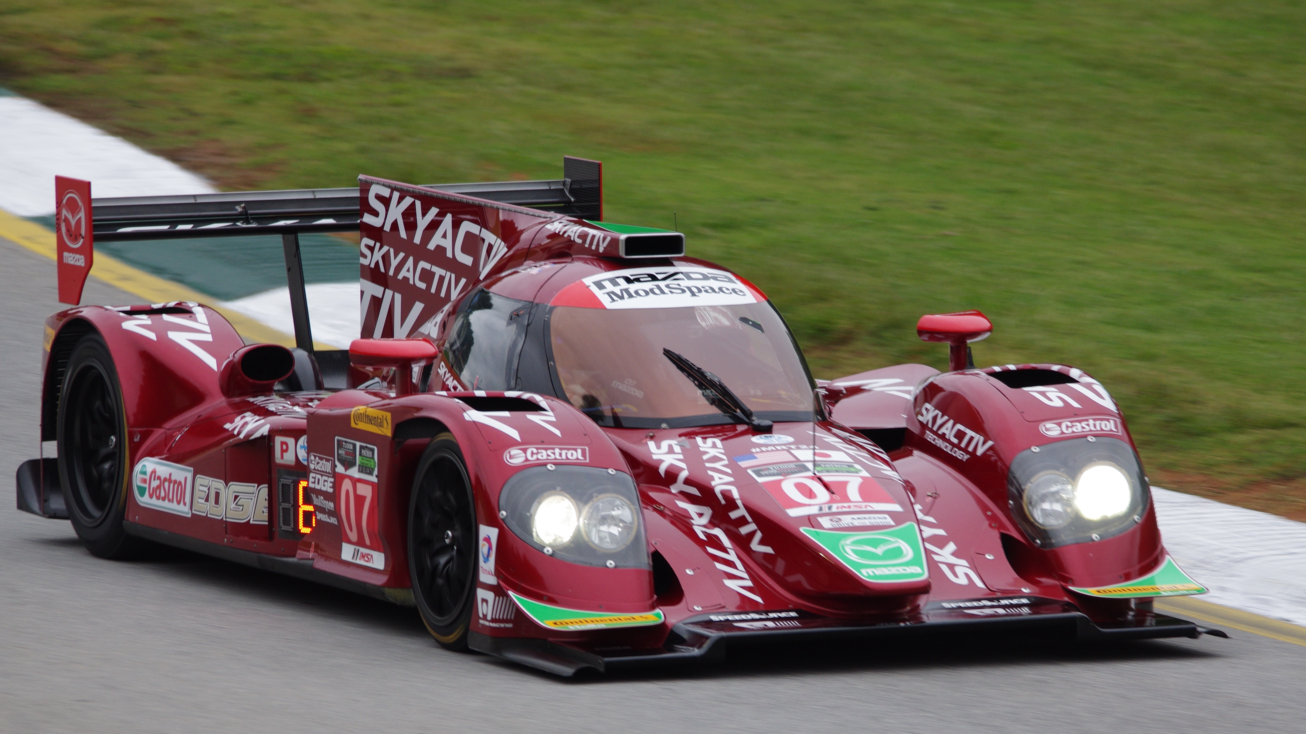 Road Atlanta - Petit le Mans 2015 - Tudor Prototype - #07 Skyaktiv Mazda Prototype - Tom Long / Joel Miller